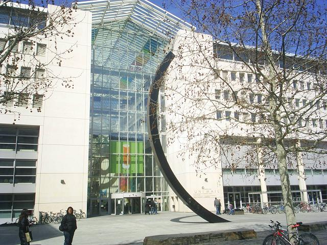 Boulevard du Pont-d'Arve, 1205 Geneva, Switzerland